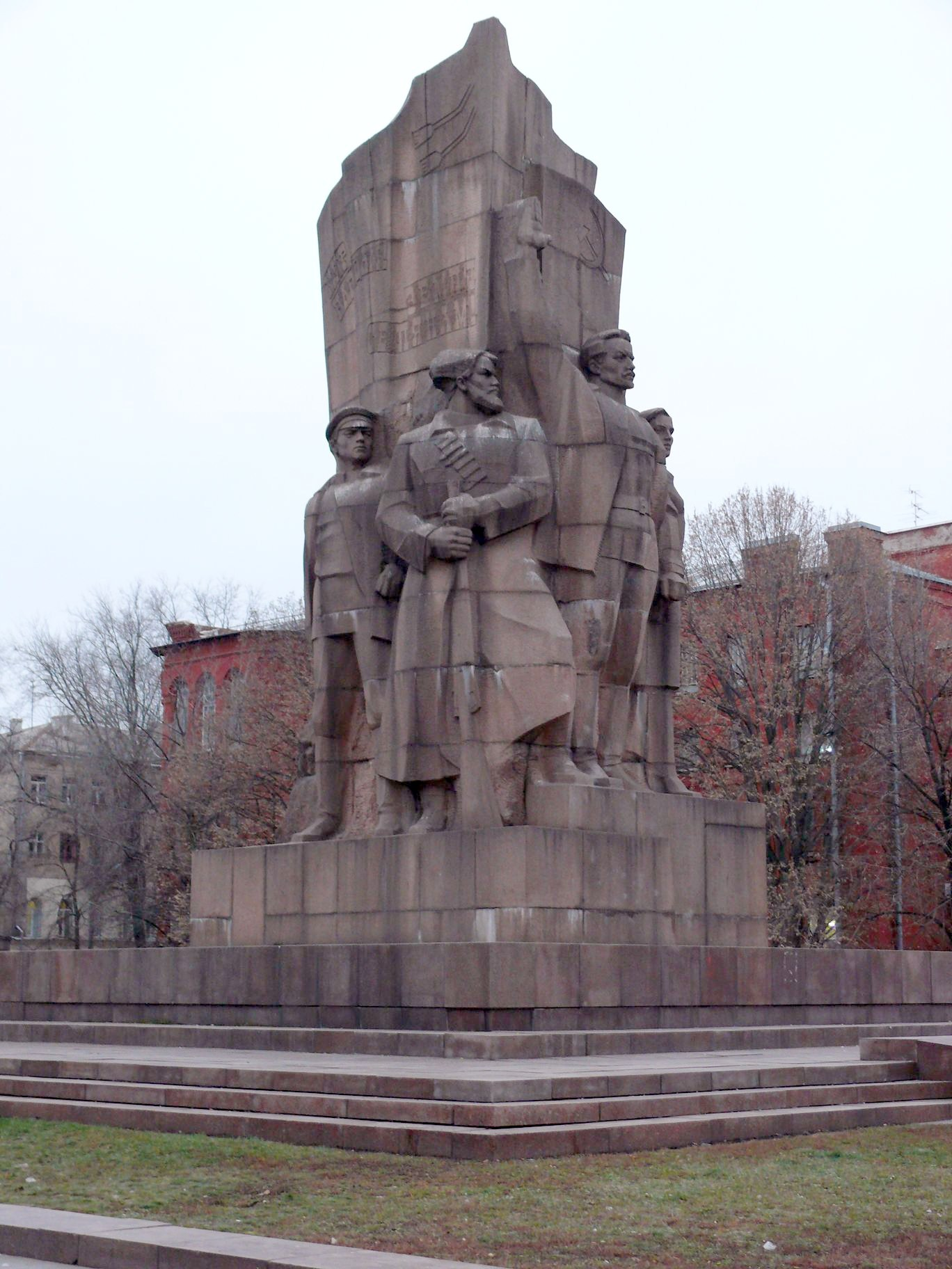 Monument in honour of USSR foundation in Kharkov (south)